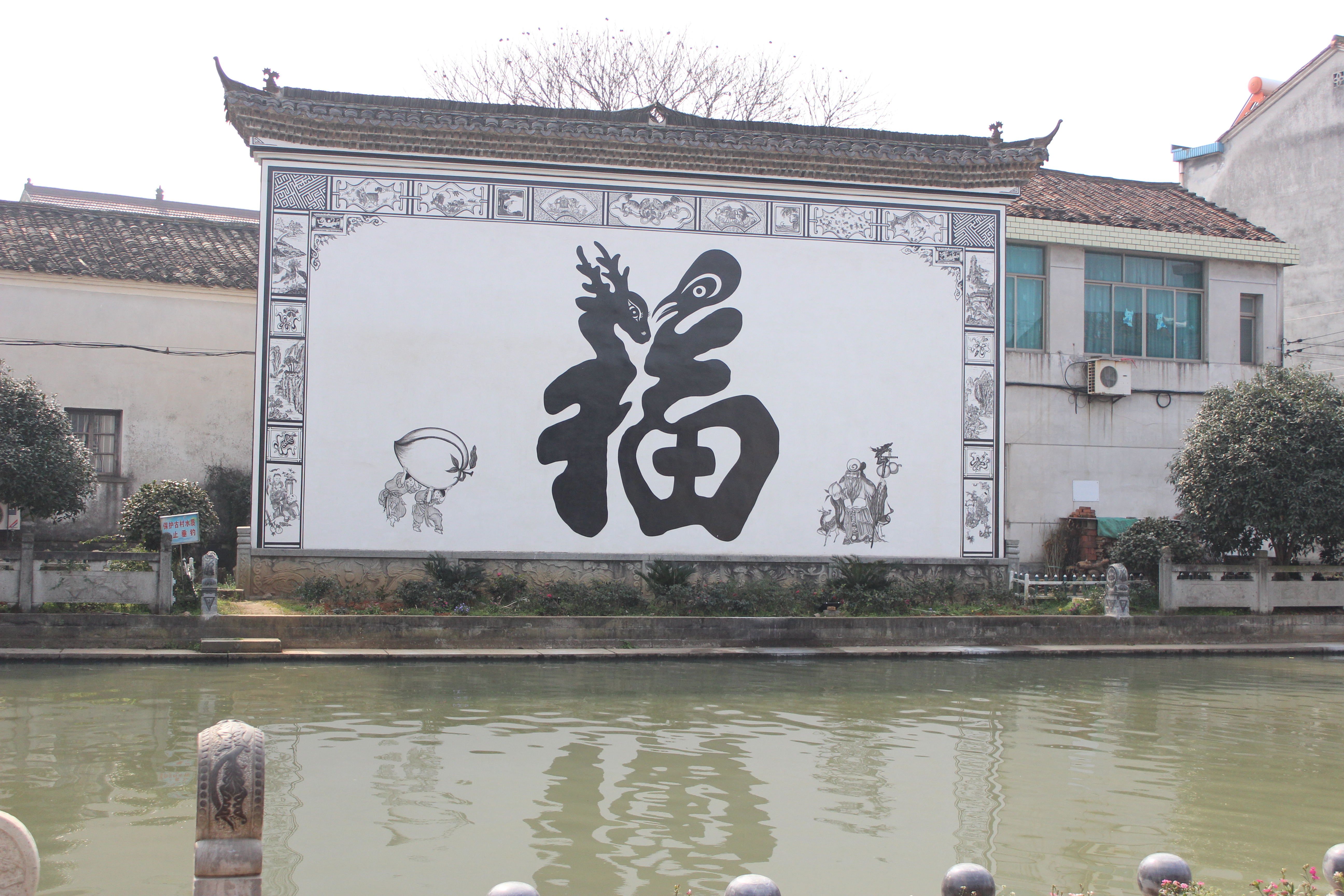 Photo of a historical building in Shangjing